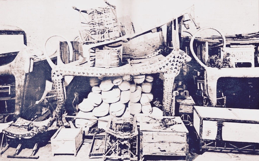 Interior features of the Tutankhamun`s tomb